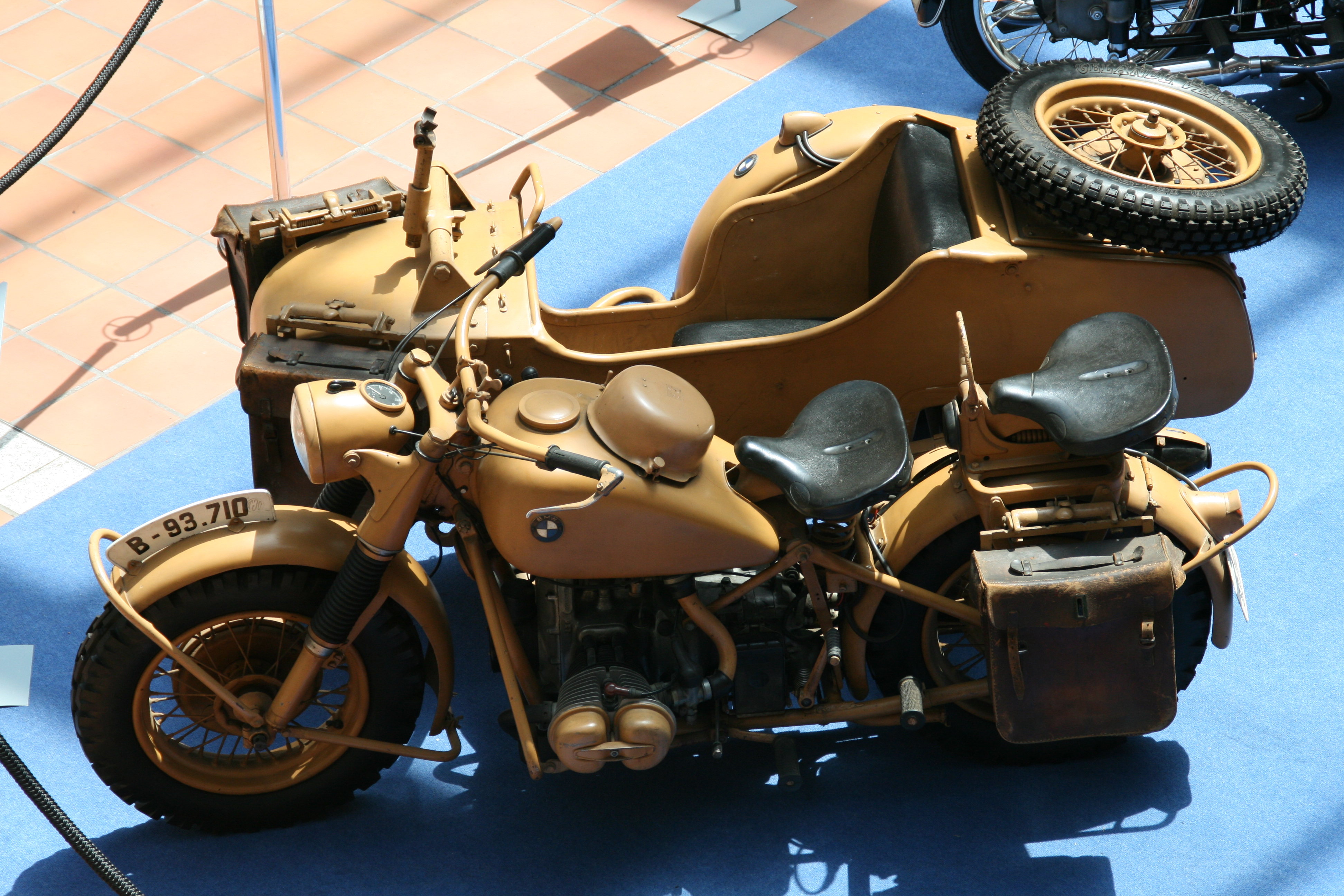 Used by the german army in the World War II